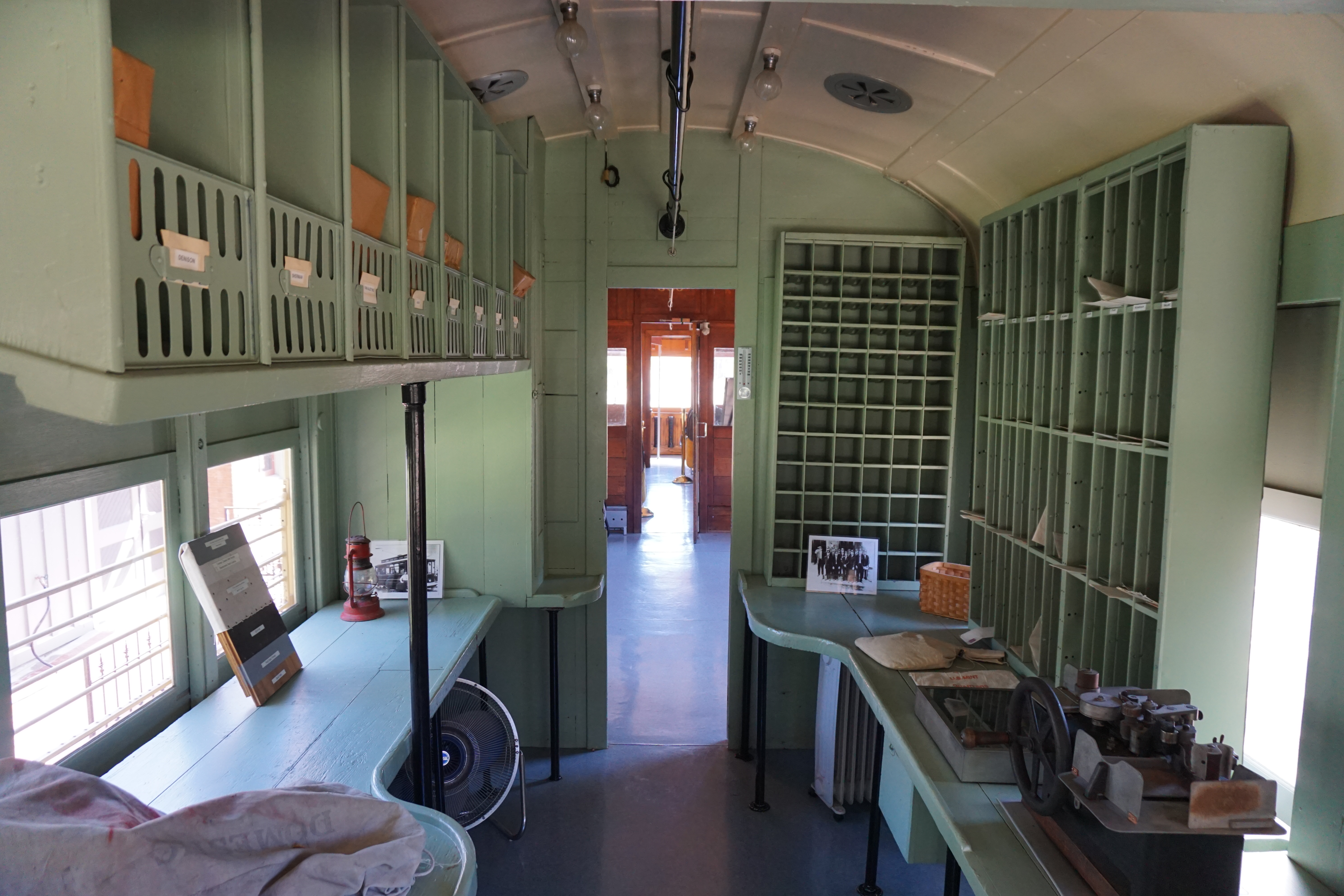 The railway post office inside of Texas Electric Railway Car 360 at the Interurban Railway Museum in Plano, Texas (United States).